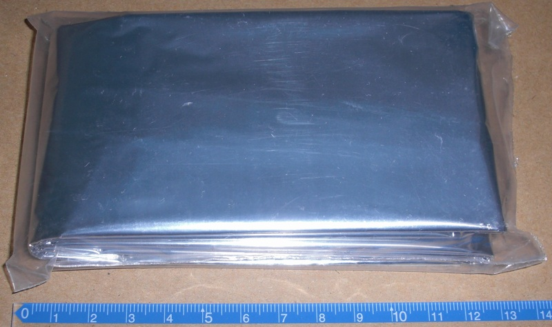 Space blanket